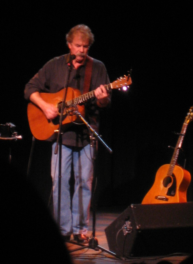 Tom Rush 2007, Firehouse, Newburyport